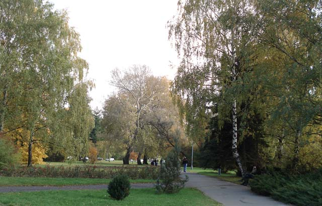 University of Miskolc, Miskolc, Hungary